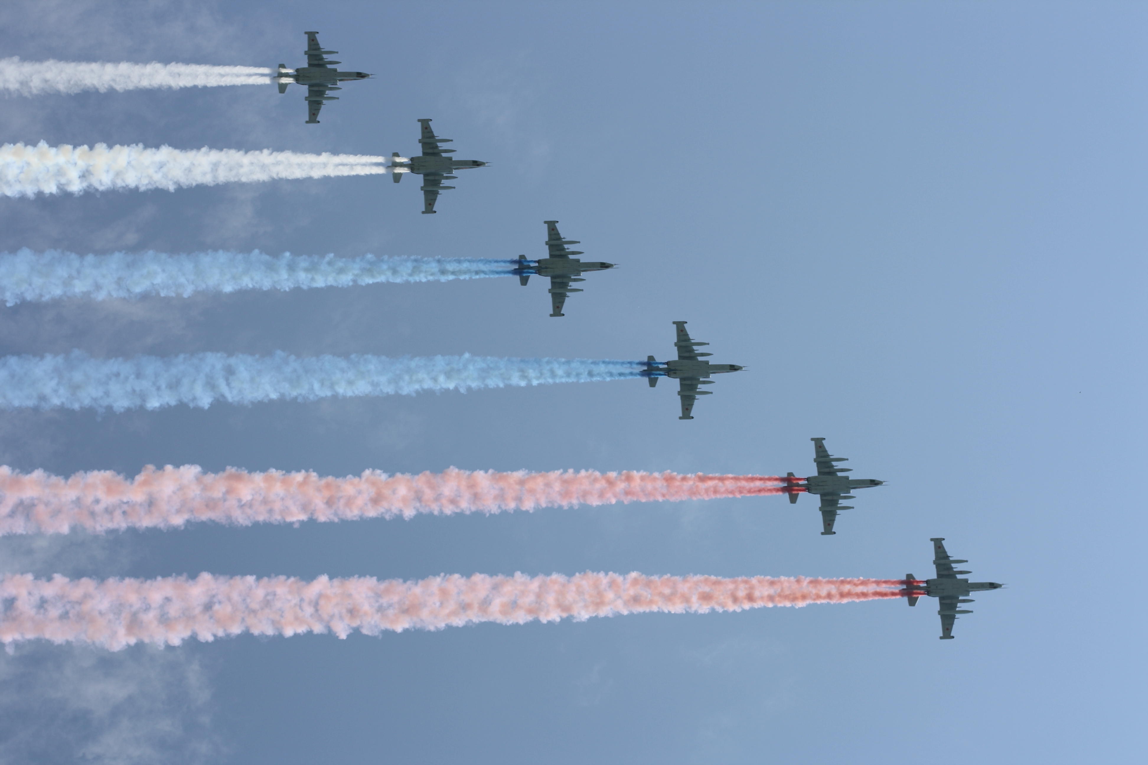 Planes in Russian Parad 2010